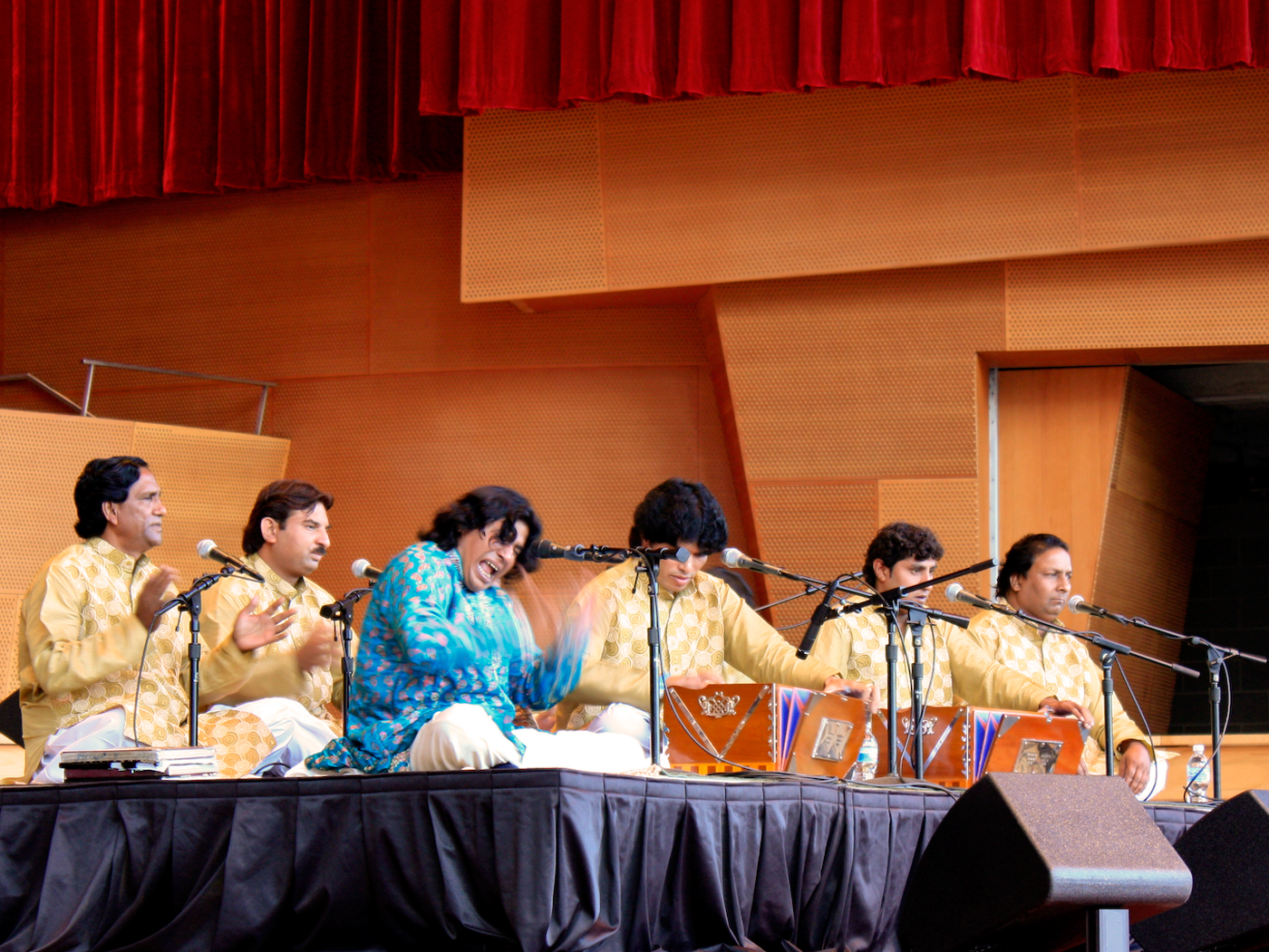 A masterful Qawwali voice, Faiz Ali Faiz entranced the crowd at Millennium Park.